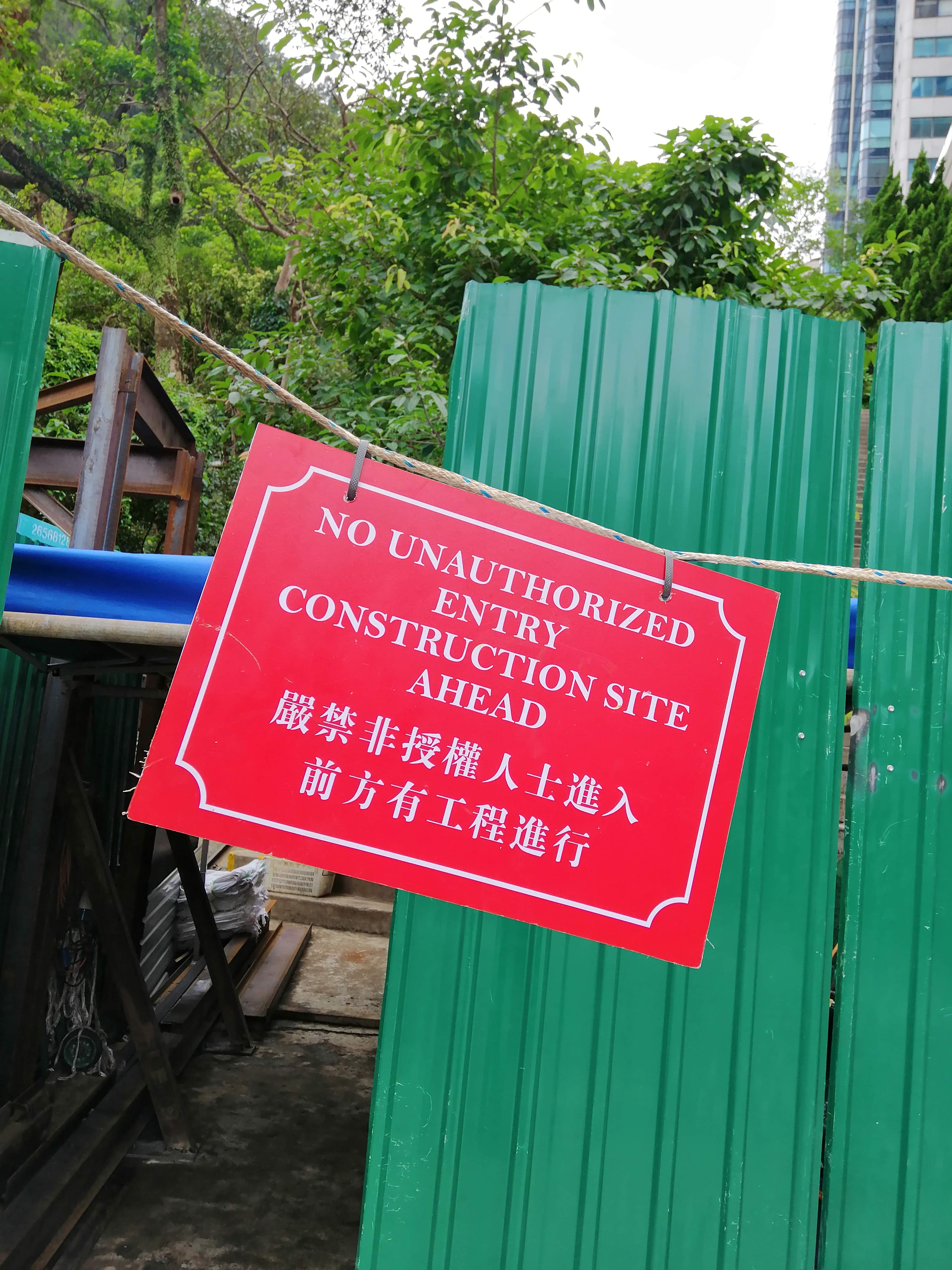 peak tram 8